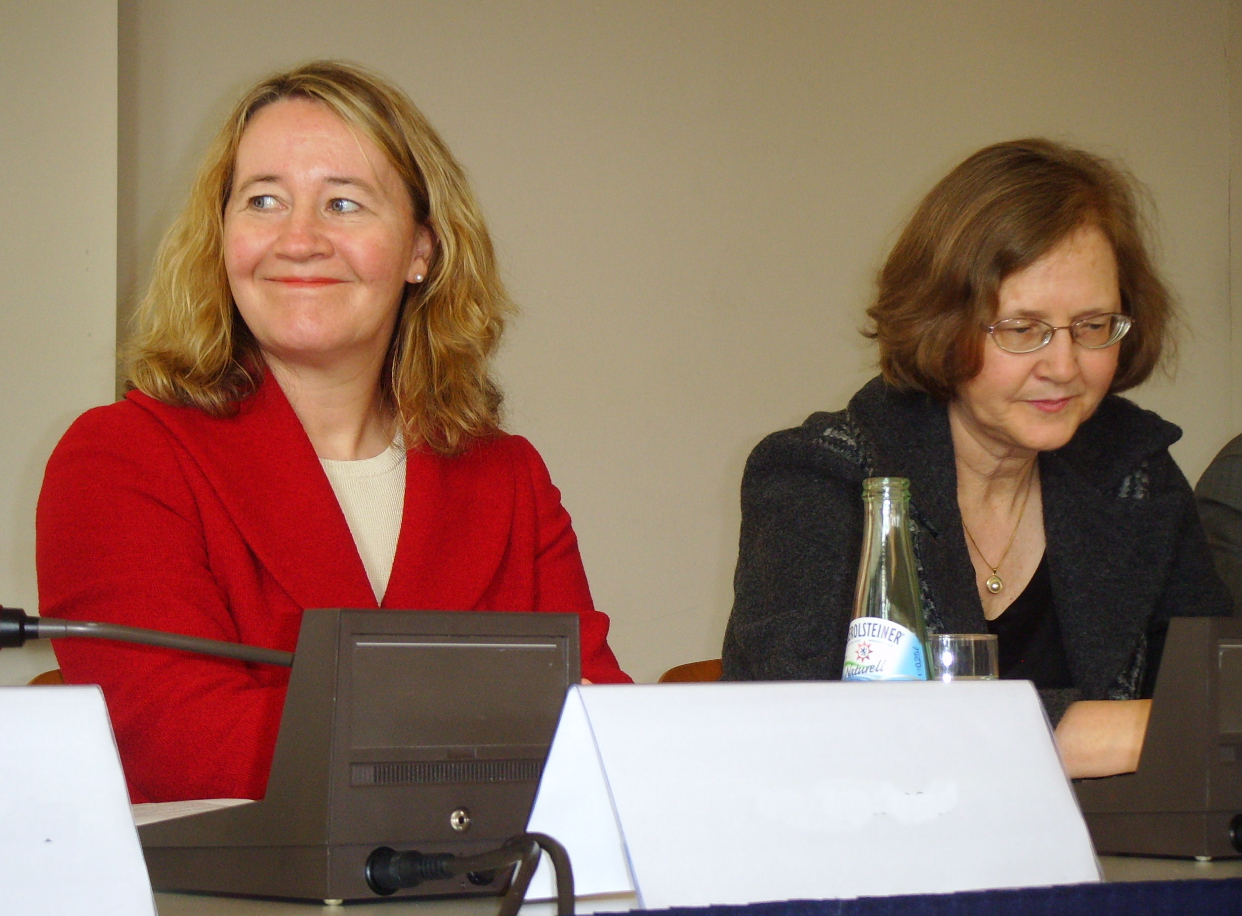 Carol Greider (in red) and Elizabeth Blackburn. Carol Greider is a molecular biologist who discovered the enzyme telomerase in 1984 while working with Elizabeth Blackburn. Elizabeth (Liz) Helen Blackburn FRS (born November 26, 1948 in Hobart, Tasmania) is an Australian-born U.S. biologist at the University of California, San Francisco (UCSF), who studies the telomere.